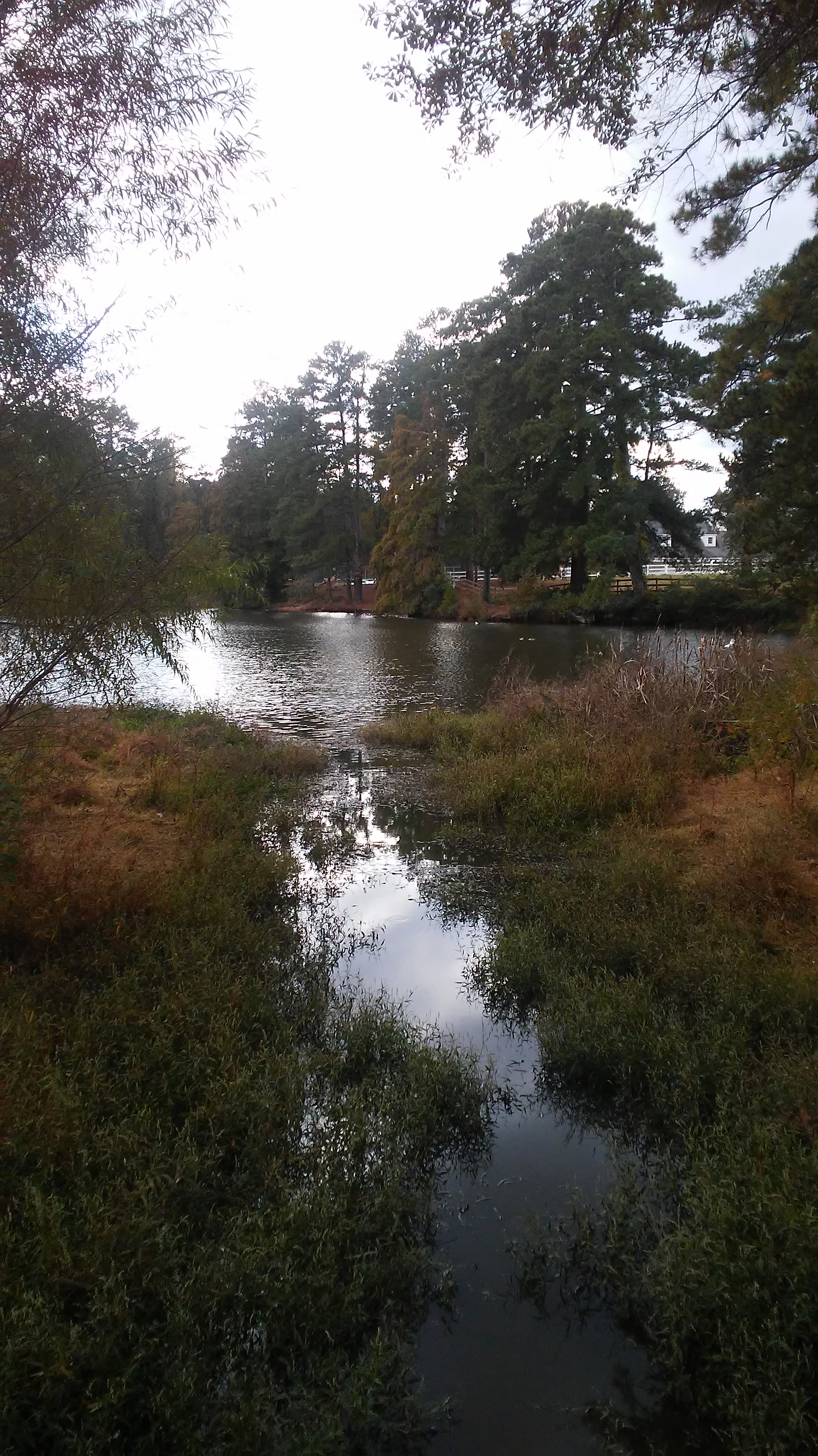 Looking across Foster Lake towards the Nancy Ellis Knox Equestrian Center